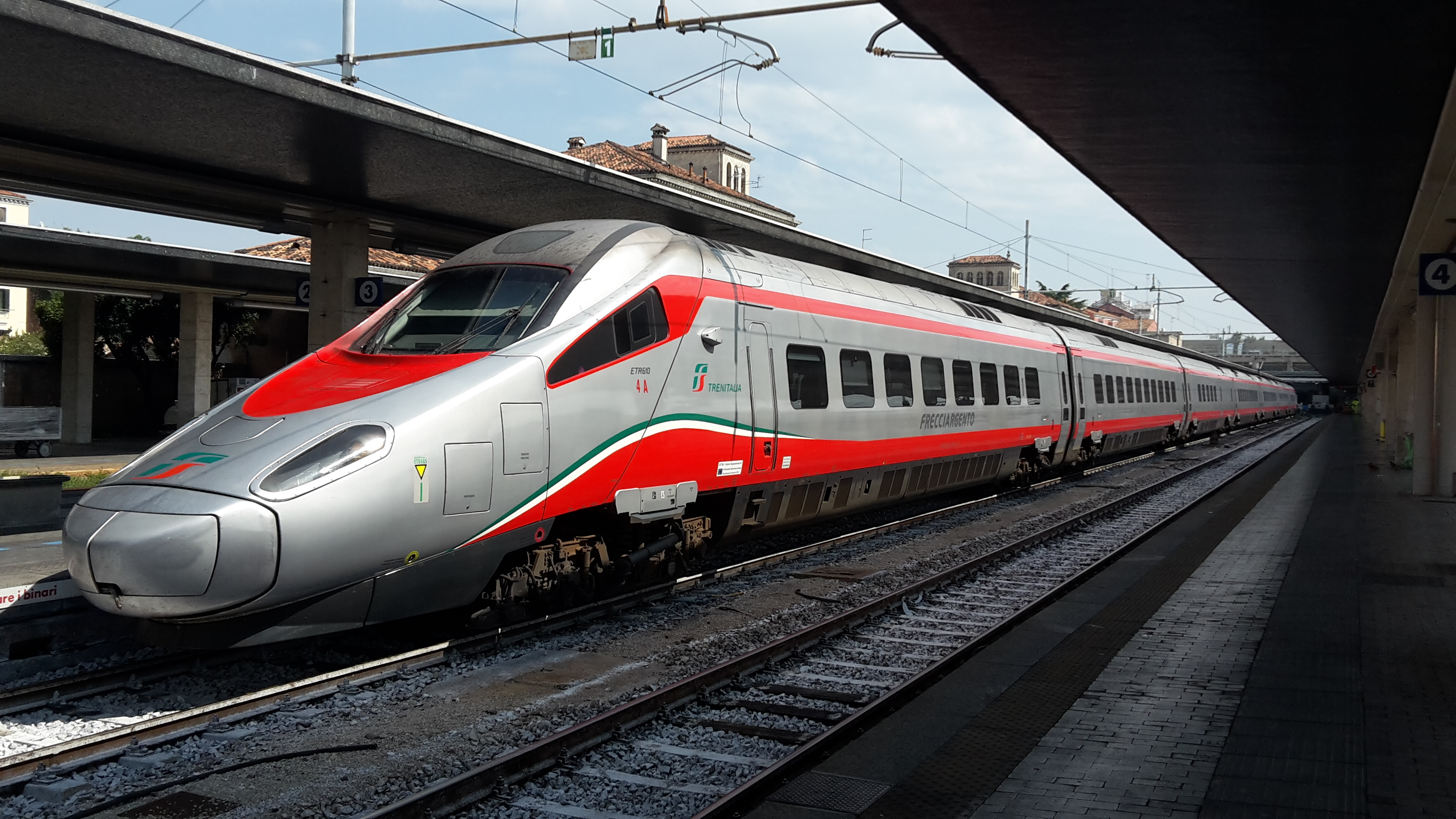 ETR610 trainset 4 in Frecciargento II livery, Venezia Santa Lucia station.